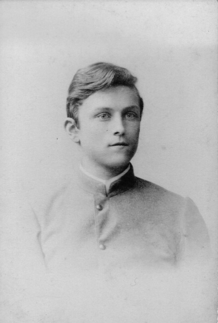 Academician I. Gorsky in youth.